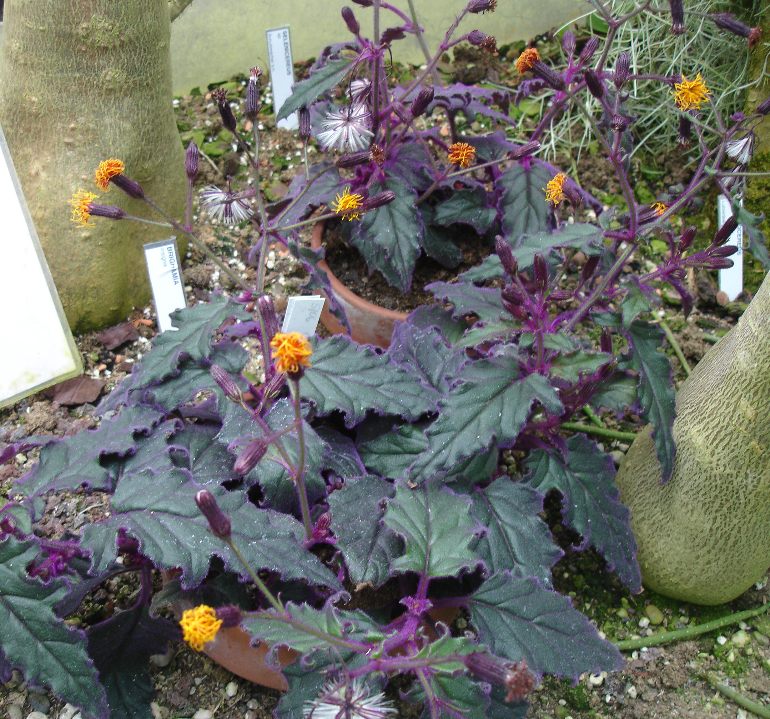 Gynura aurantiaca Gynura sarmentosa with flowers and seeds. Identification by User:Nandan Kalbag.